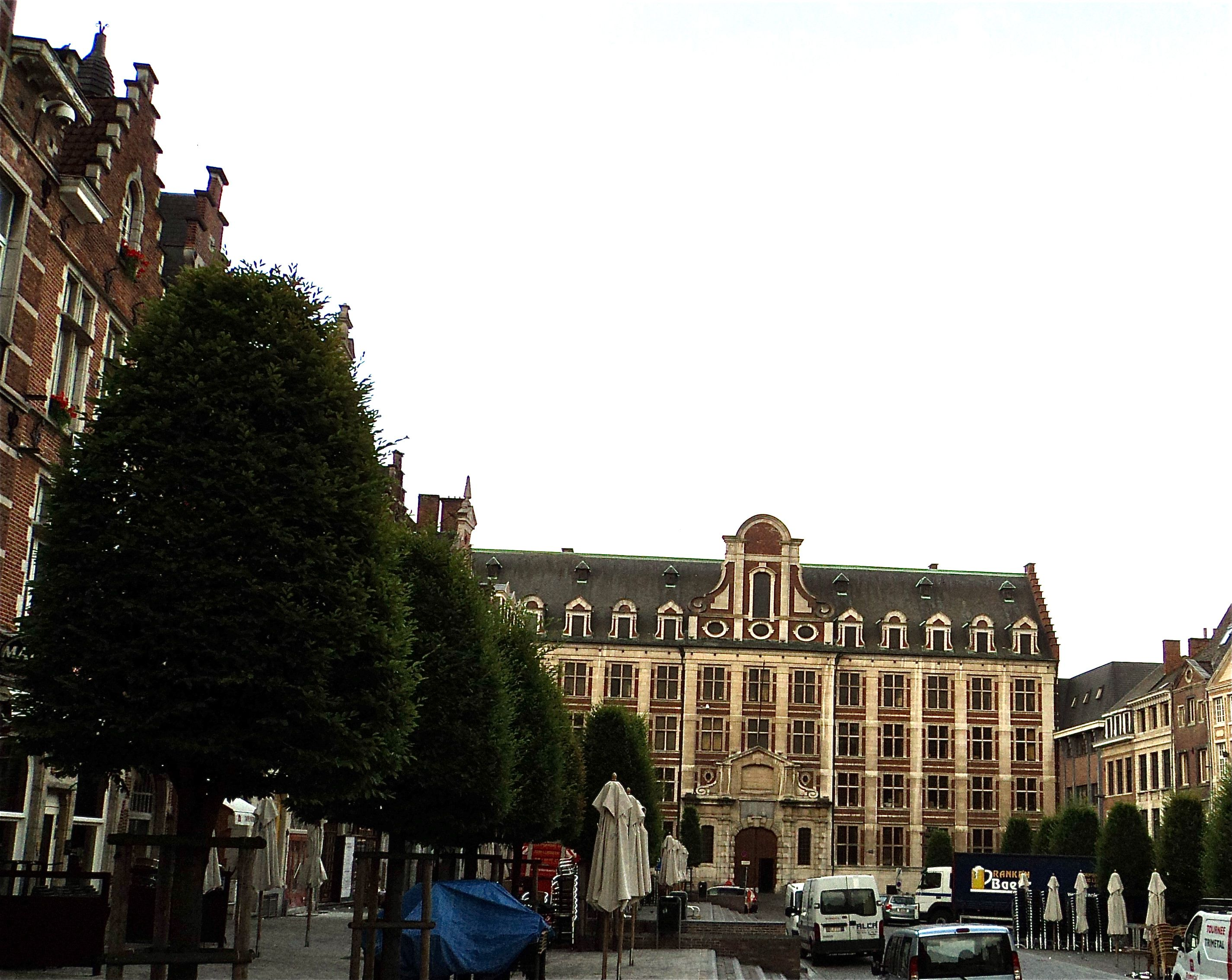 Holy Trinity College, Old Market Place, Leuven, Belgiuim.